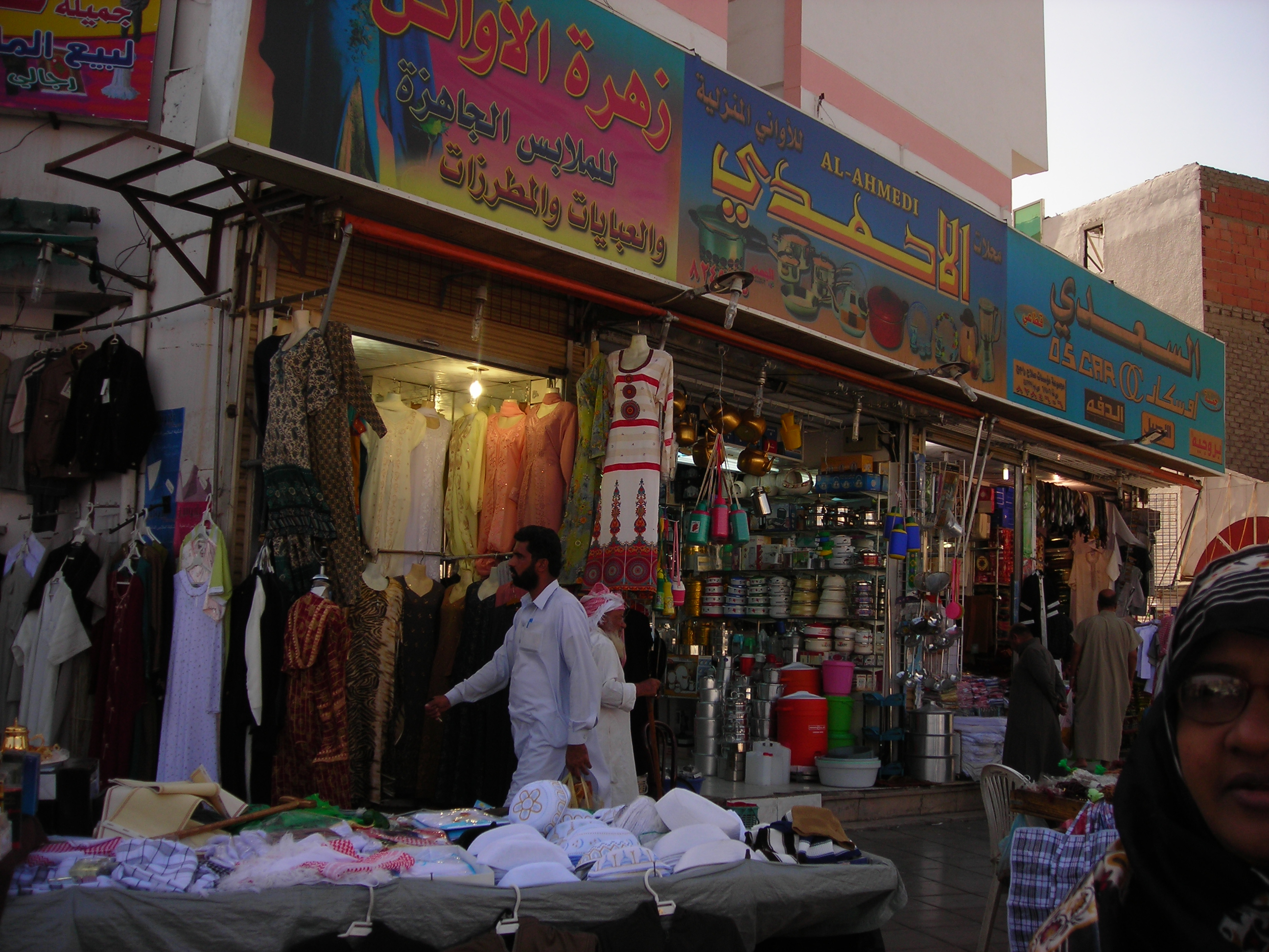 A street of Madina lined with shops, just near the Prophet's mosque.